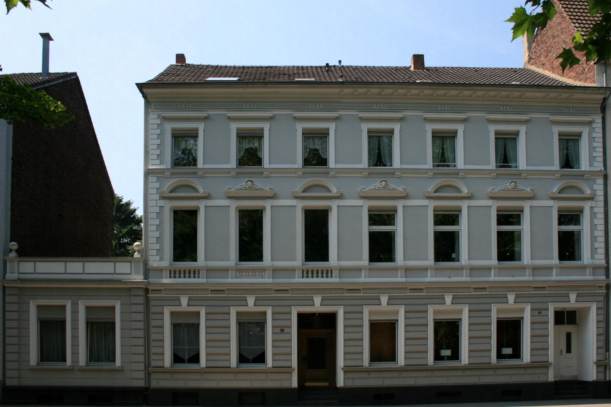 Cultural heritage monument No. B 081 in Mönchengladbach